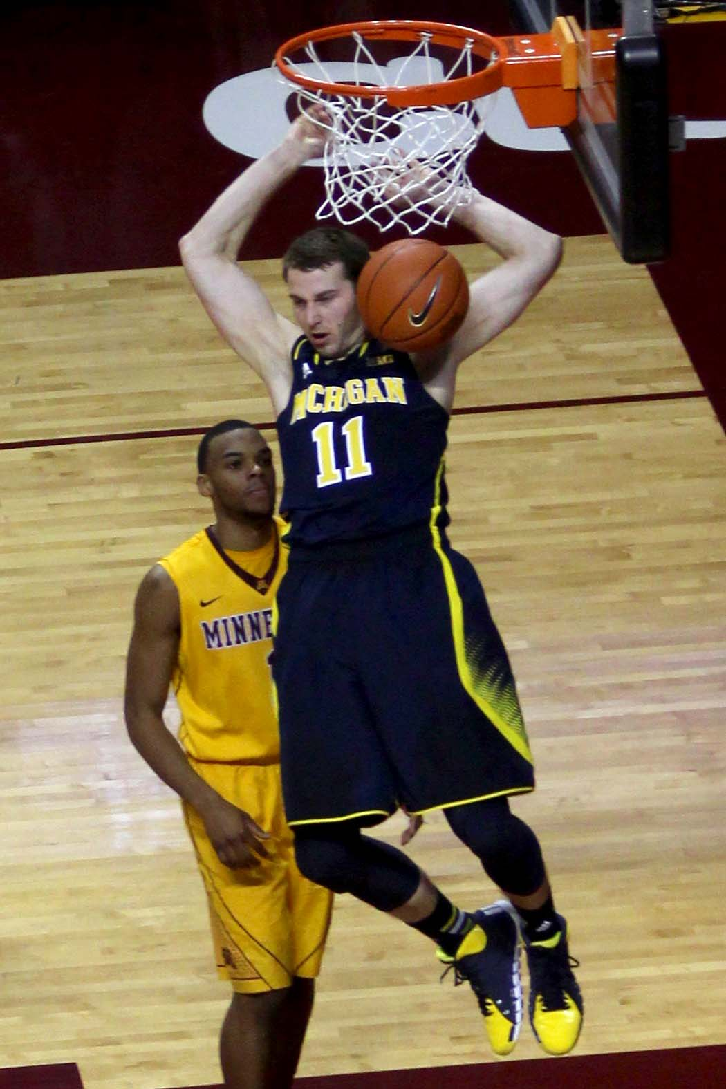 Nik Stauskas at Williams Arena